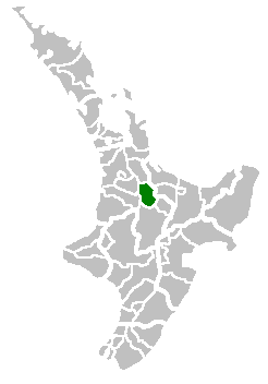 Map for South Waikato Territorial Authority